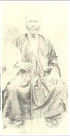 Mahdi Appah, first convert to the Ahmadiyya movement in Ghana